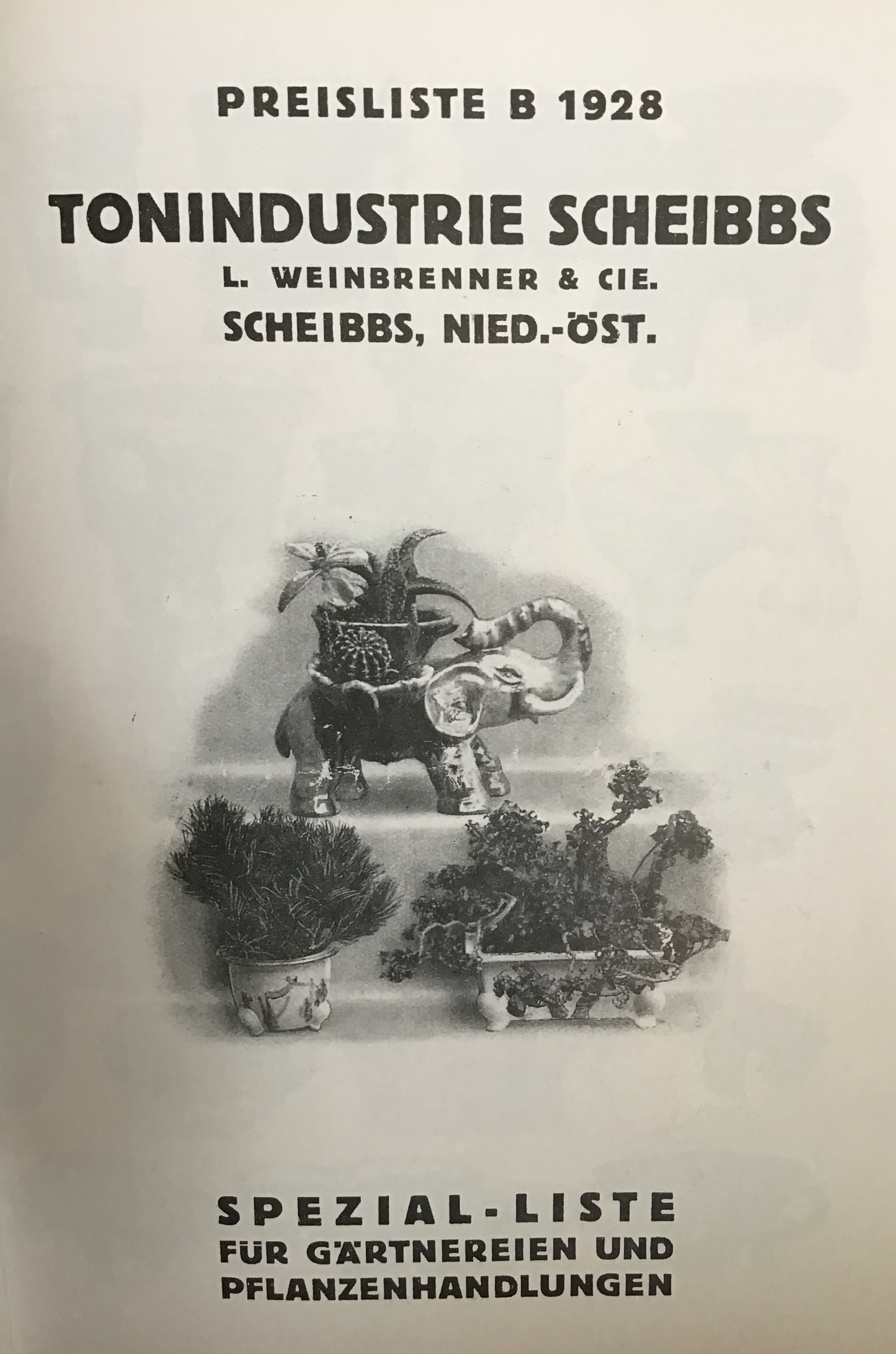 Tonindustrie Scheibbs Katalog